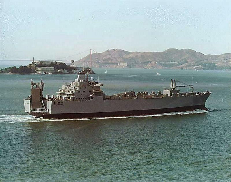 SS Cape Island sailing in harbor Other information ship in harbor